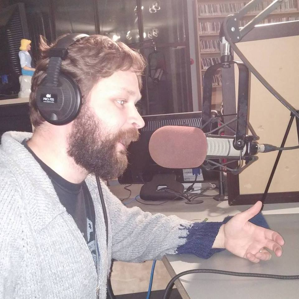 Witchpolice Radio host Sam Thompson on-air at UMFM 101.5 campus/community radio in Winnipeg, Manitoba, Canada.